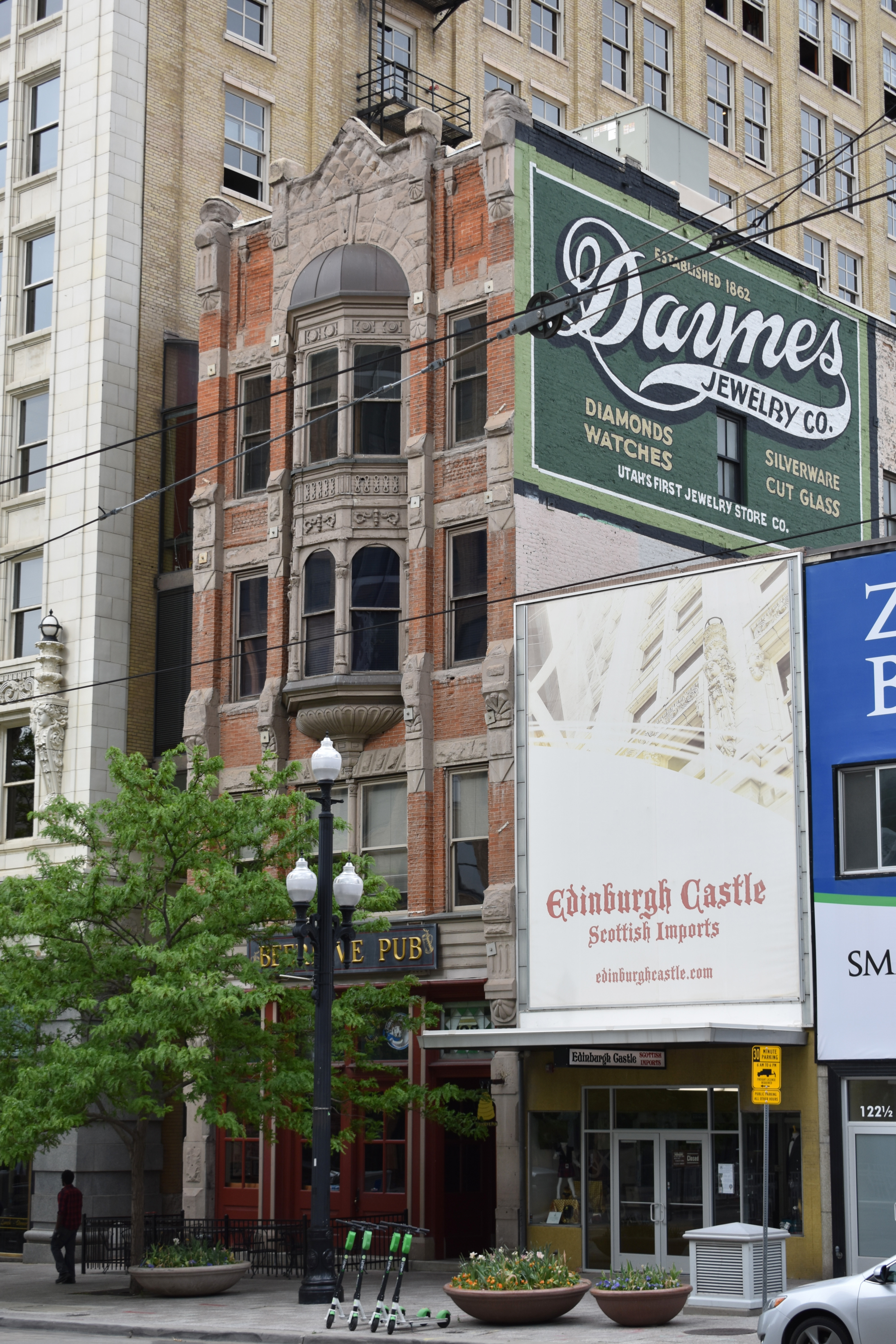 The Daft Block (1889), second from left, in Salt Lake City is listed on the National Register of Historic Places.